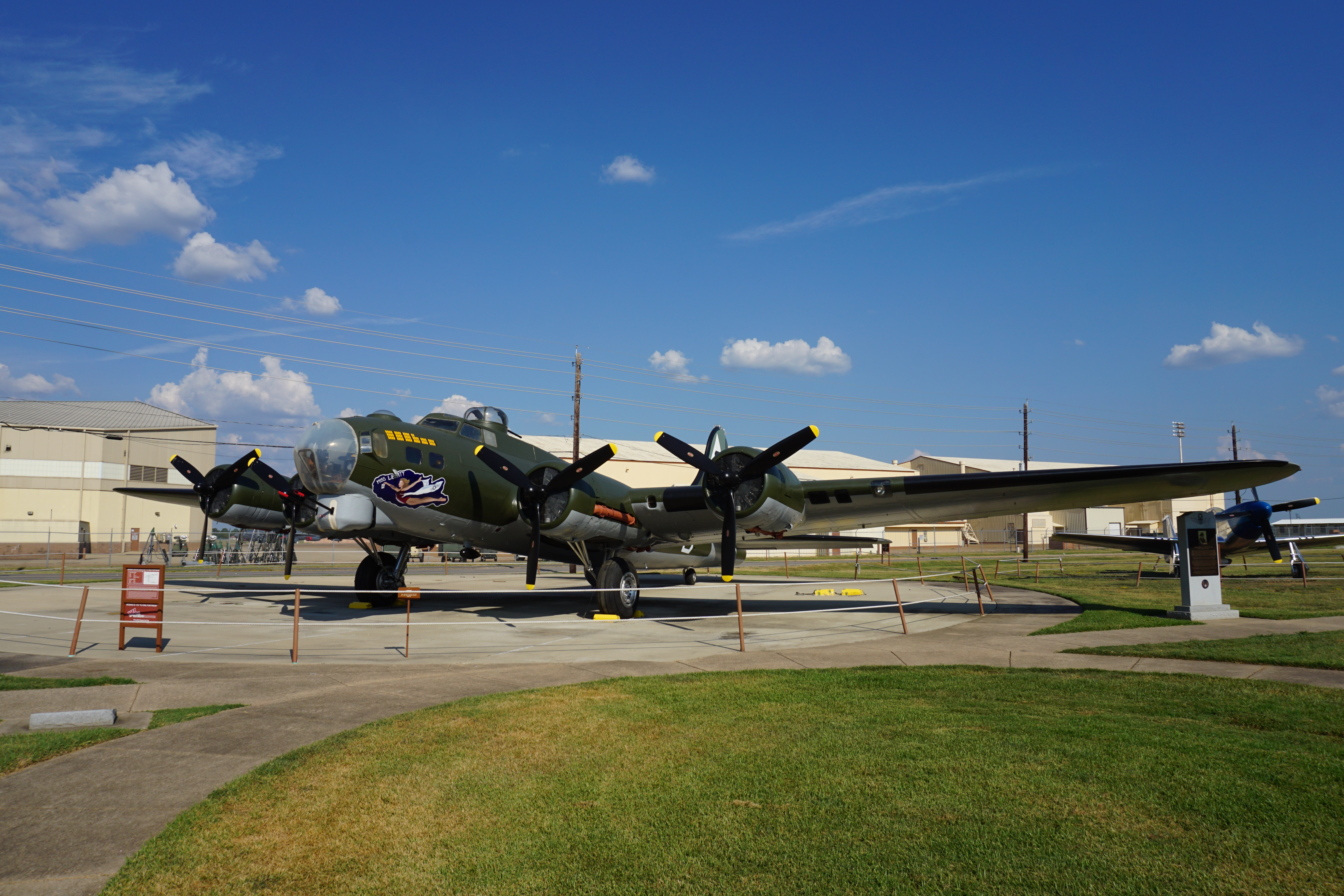 Boeing B-17G Flying Fortress Miss Liberty Belle (44-83690) on display at the Barksdale Global Power Museum at Barksdale Air Force Base near Bossier City, Louisiana (United States).